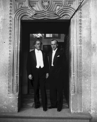 Conductor Grzegorz Fitelberg, pianist Henryk Sztompka at Wawel Royal Castle